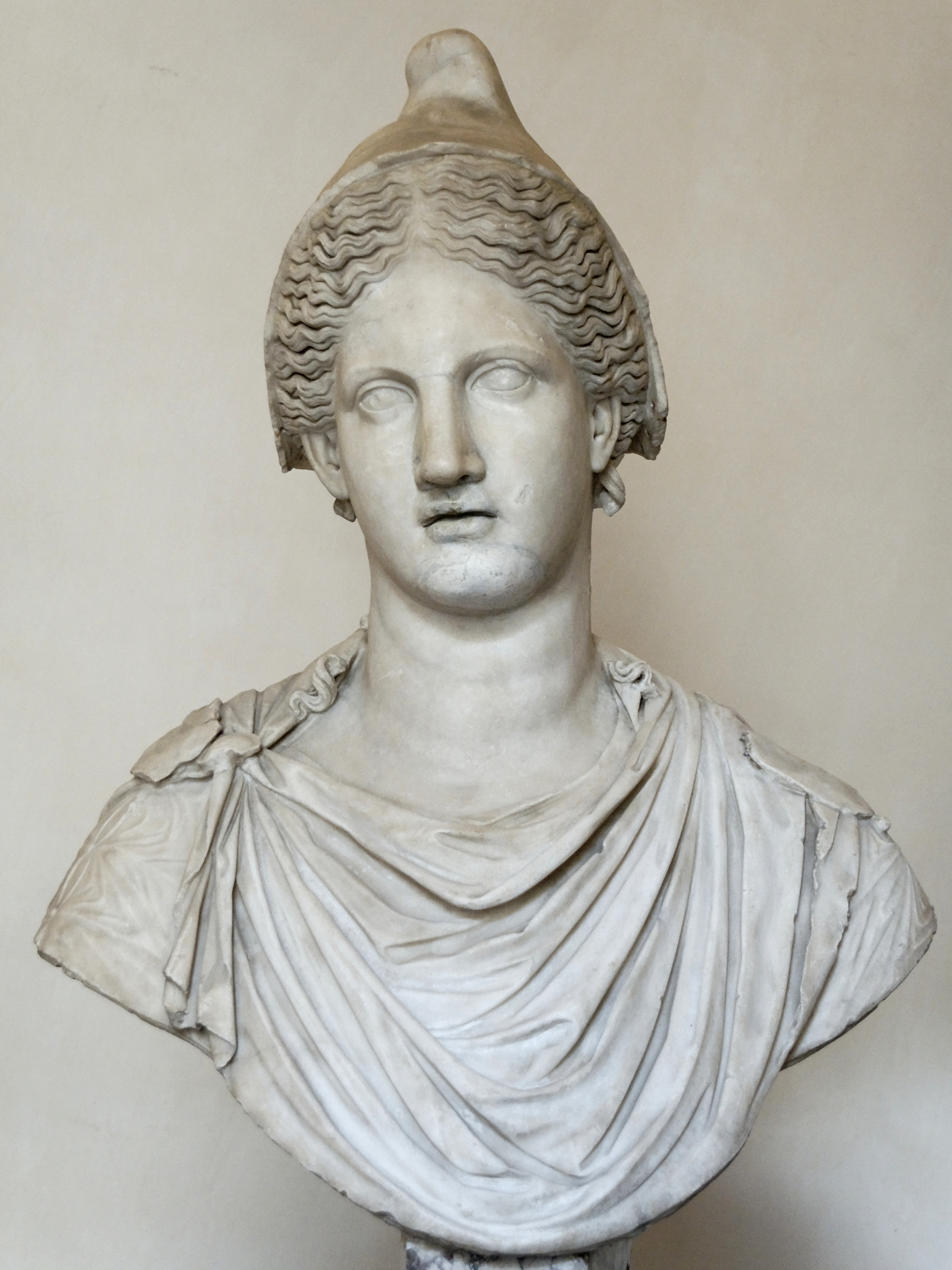 Head of Athena wearing an Attic helmet, mistakenly restored as an Attis wearing the Phrygian cap. Luna marble, Roman artwork after Classical Greek models, Hadrian era.